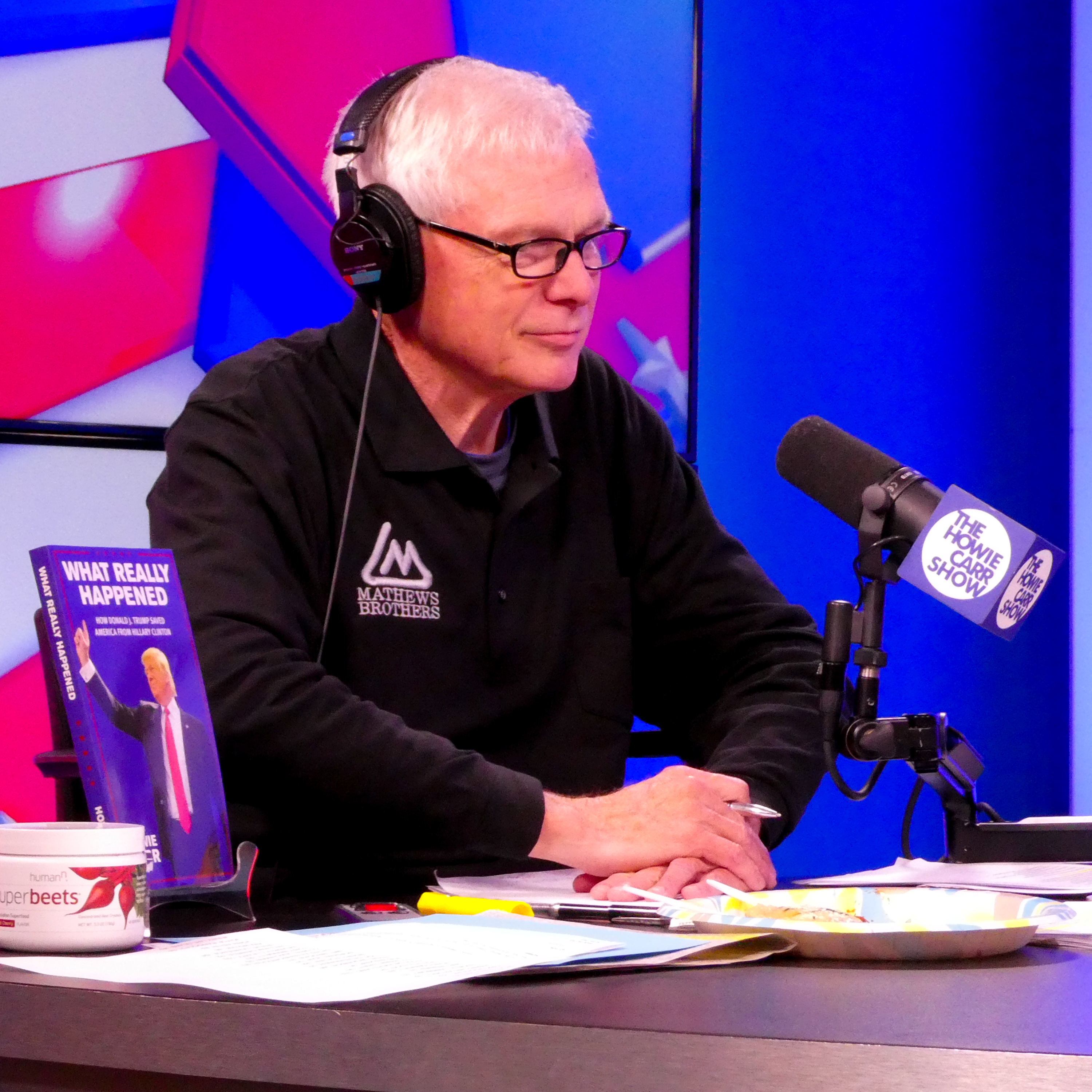 This photo is self-explanatory. It shows Howie Carr during a January, 2020 broadcast at the studio in Needham, Massachusetts, USA.